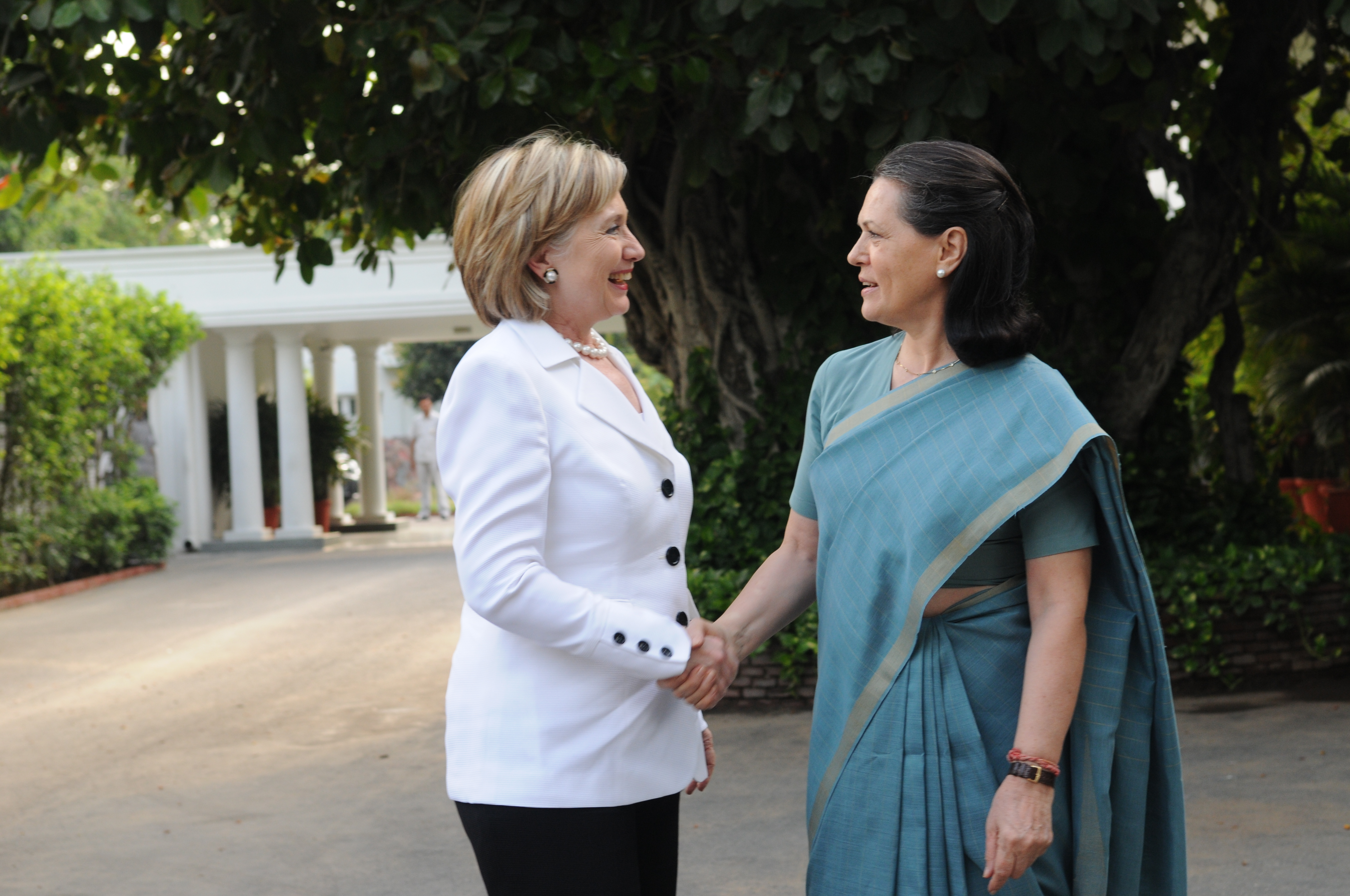 Indian National Congress Party President Sonia Gandhi welcomes U.S. Secretary of State Hillary Rodham Clinton to her residence in New Delhi, India.